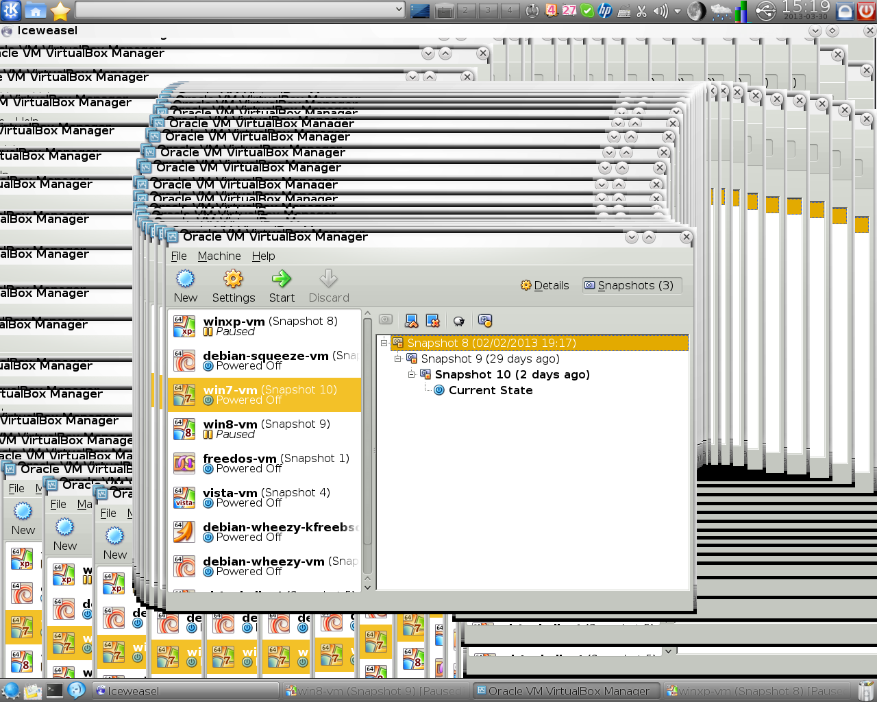 A frozen app in KDE with compositing turned off